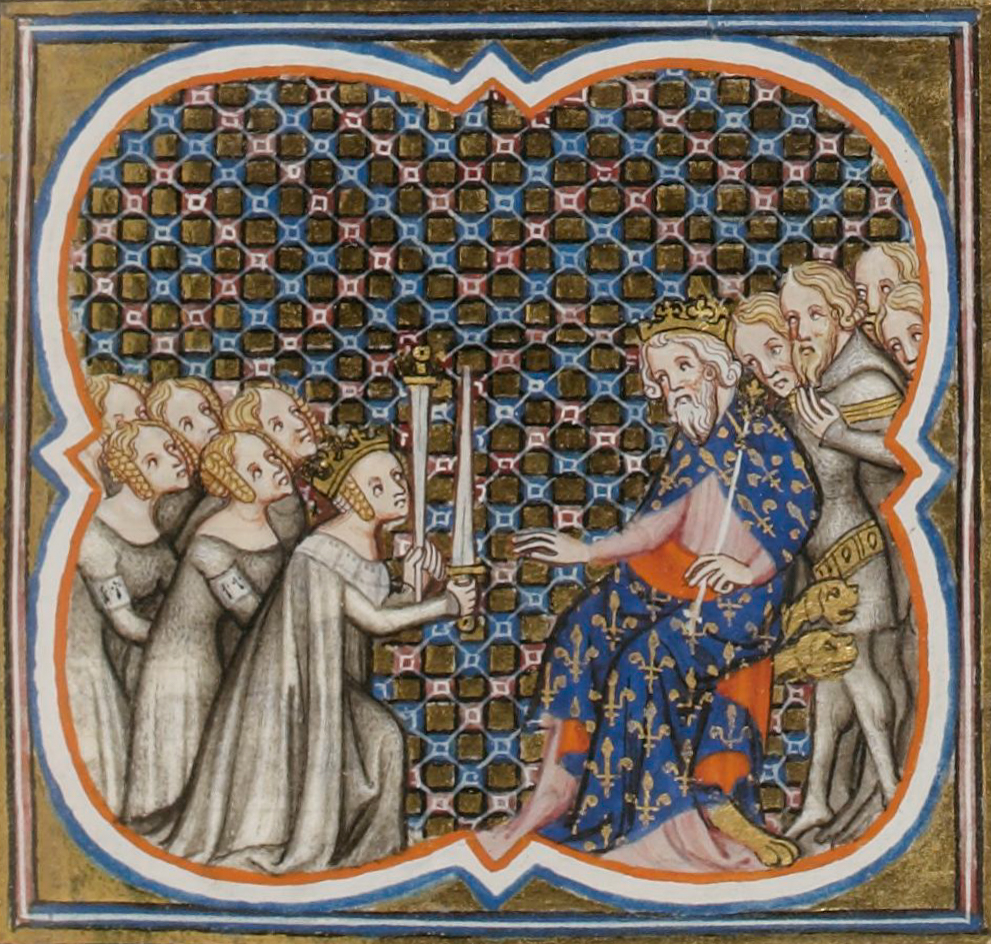 Louis the Stammerer and Richilda of Provence